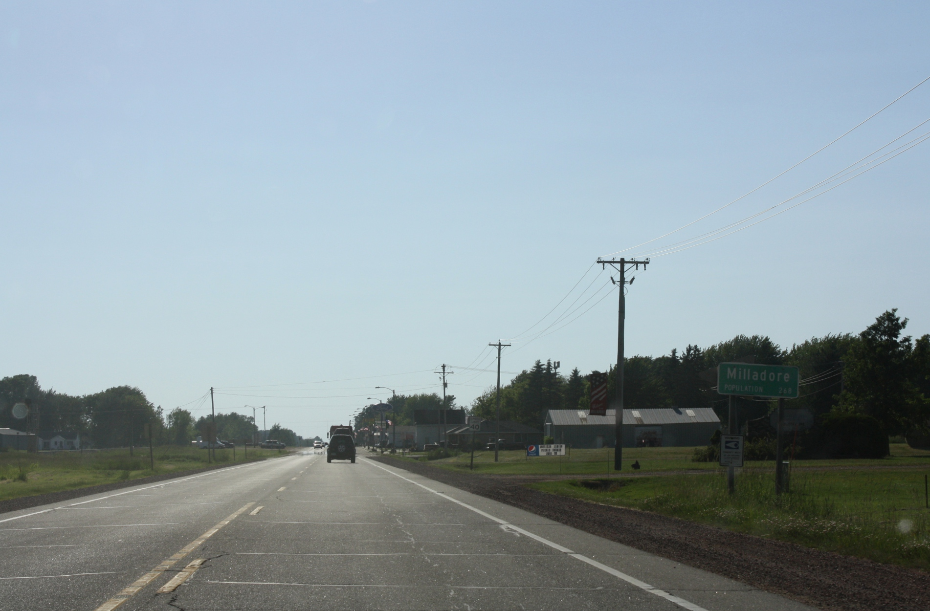 Looking west at the sign for Milladore, Wisconsin.